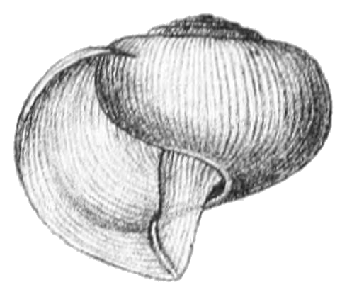 Drawing of apertural view of the shell of Limacina helicina.